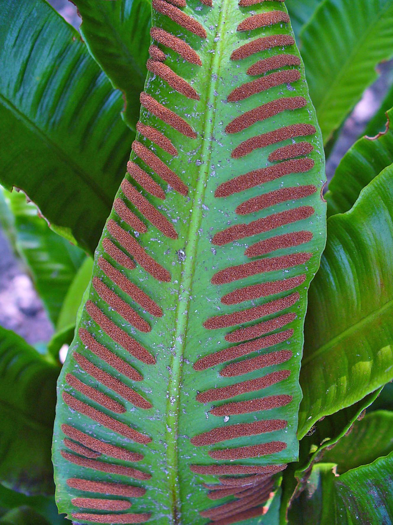 Asplenium scolopendrium, Hart's-tongue, Sori; Stutensee-Staffort, Germany.